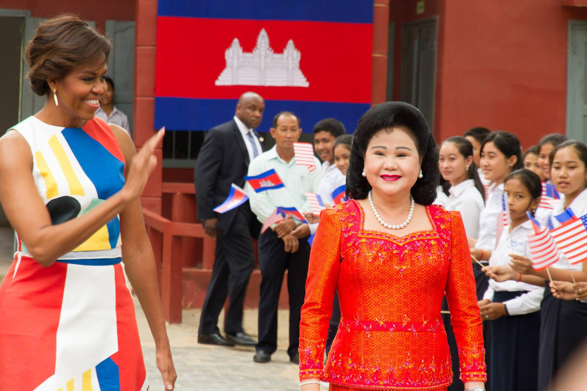 US First Lady Michelle Obama arrived with Cambodian first lady Bun Rany at Hun Sen Prasat Bakong Hight School, around 40 Kilometer outside of Siem Reap town, Saturday, March 21, 2015, to promote her “Let Girls Learn” initiative.